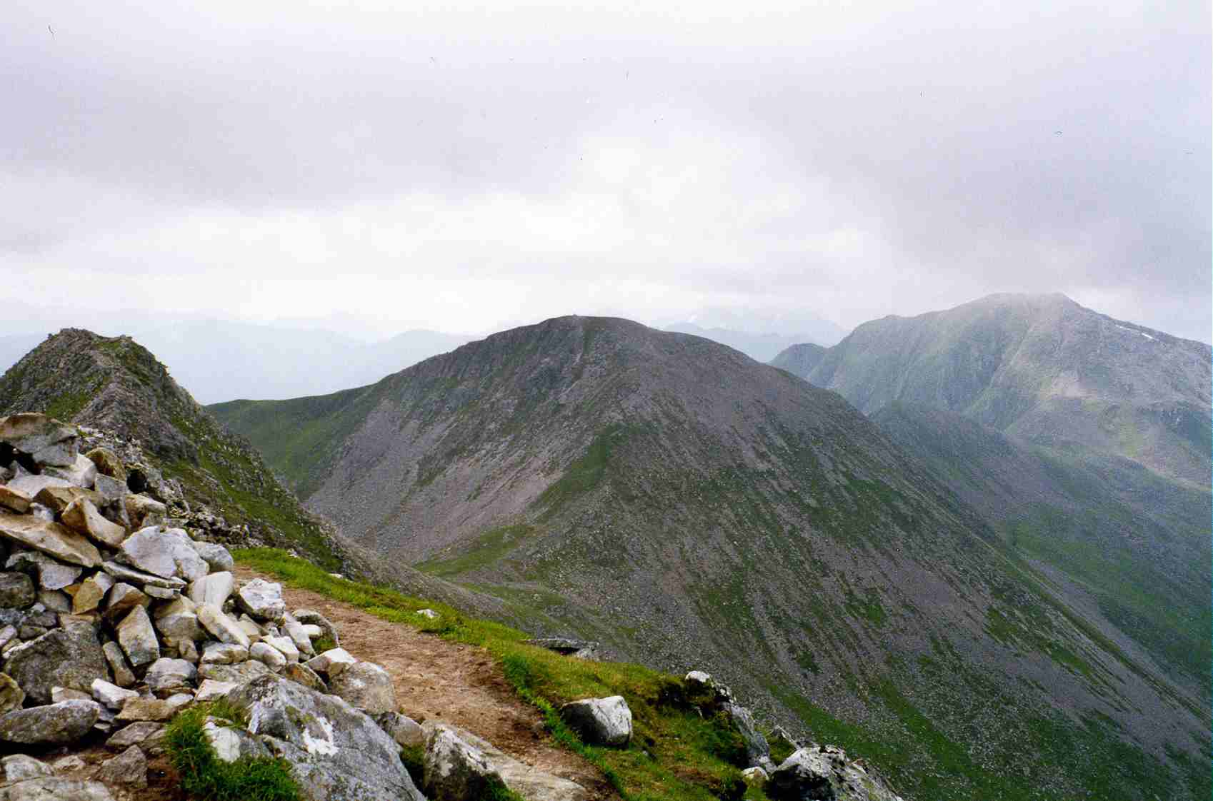 Personal photograph taken by Mick Knapton